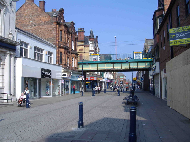 King Street, South Shields The metro station is located above the street, on the bridge.